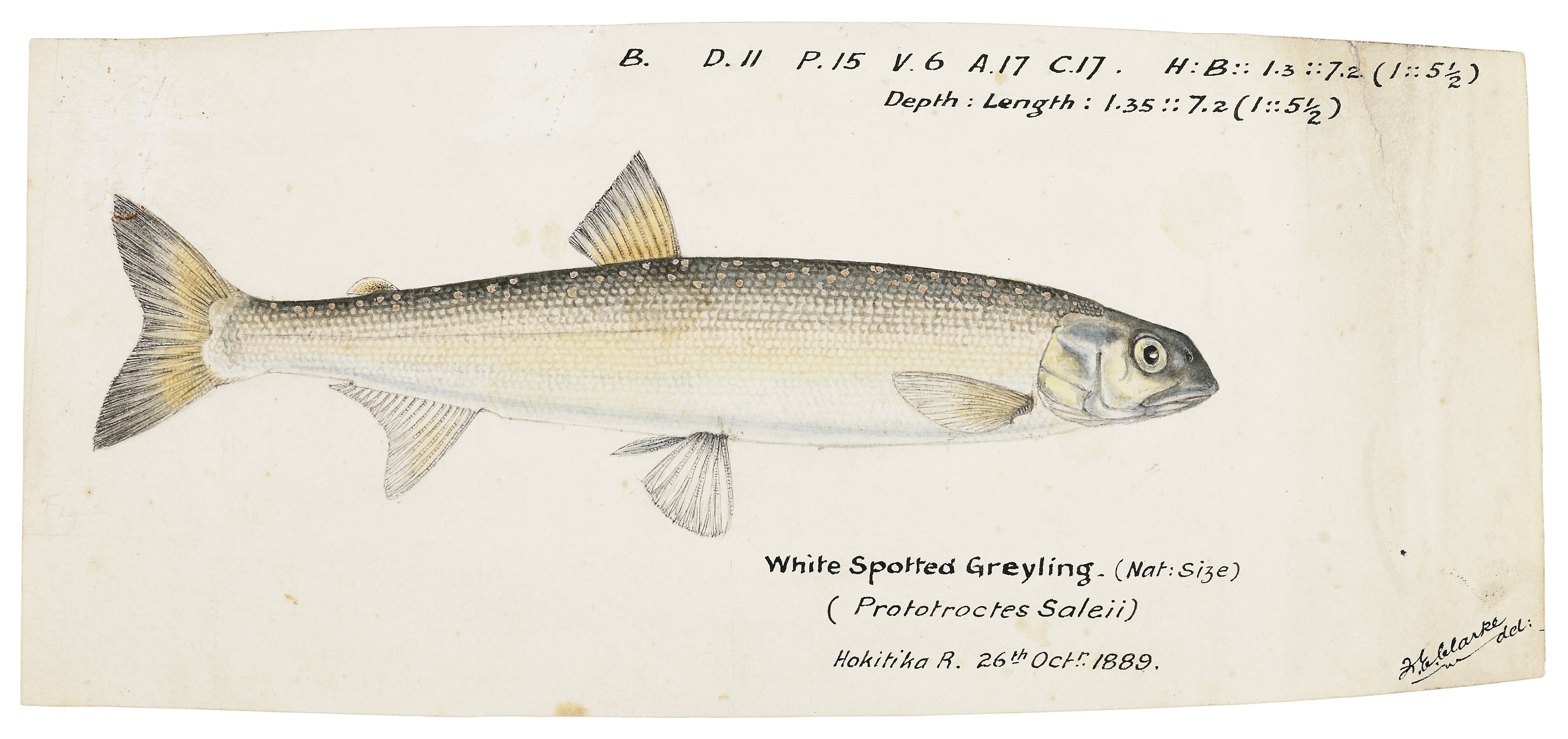 New Zealand’s only extinct freshwater fish is the grayling (Prototroctes oxyrhynchus). This specimen was illustrated from a catch from the Hokitika River in 1889.